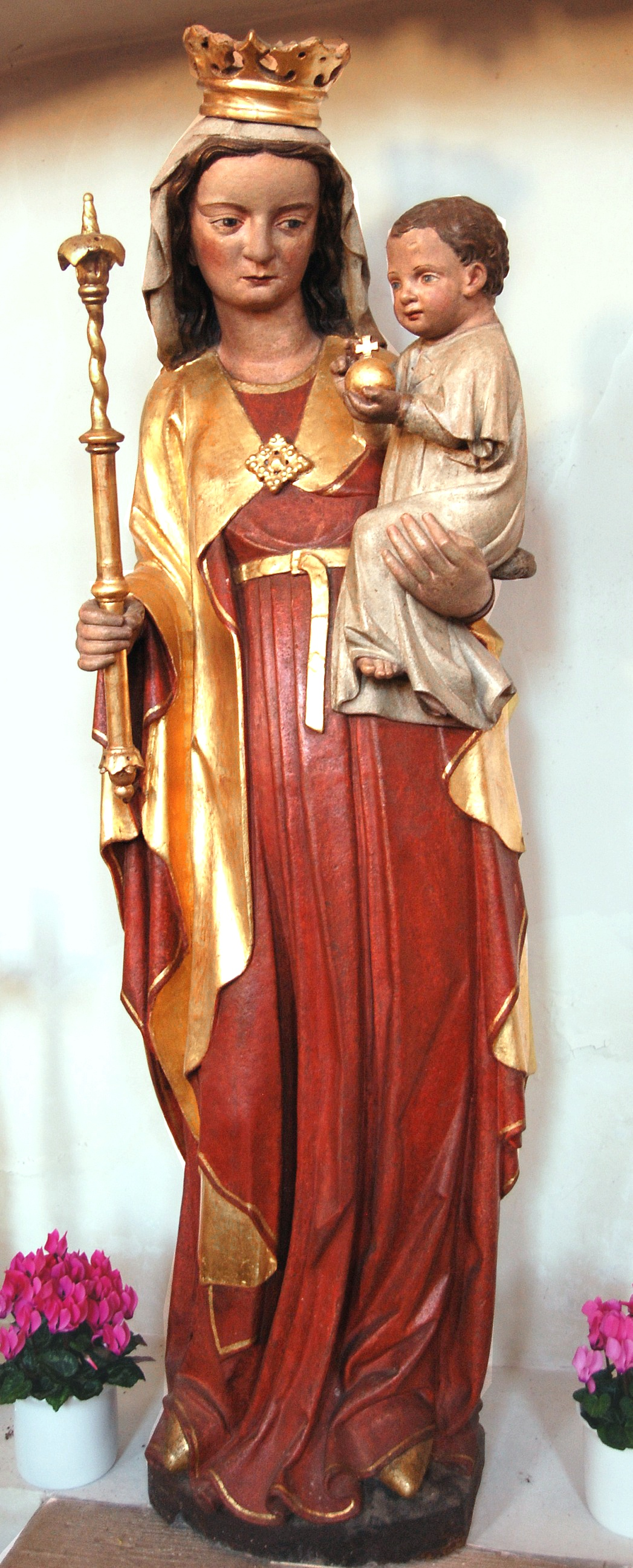 Catholic Church Saint Ulrich in Bollschweil (Black Forrest): statue of the Virgin Mary with child (about 1310)